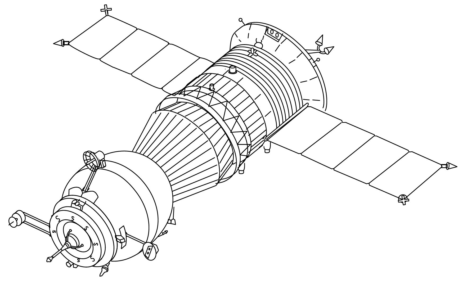 Progress-M logistics resupply spacecraft.